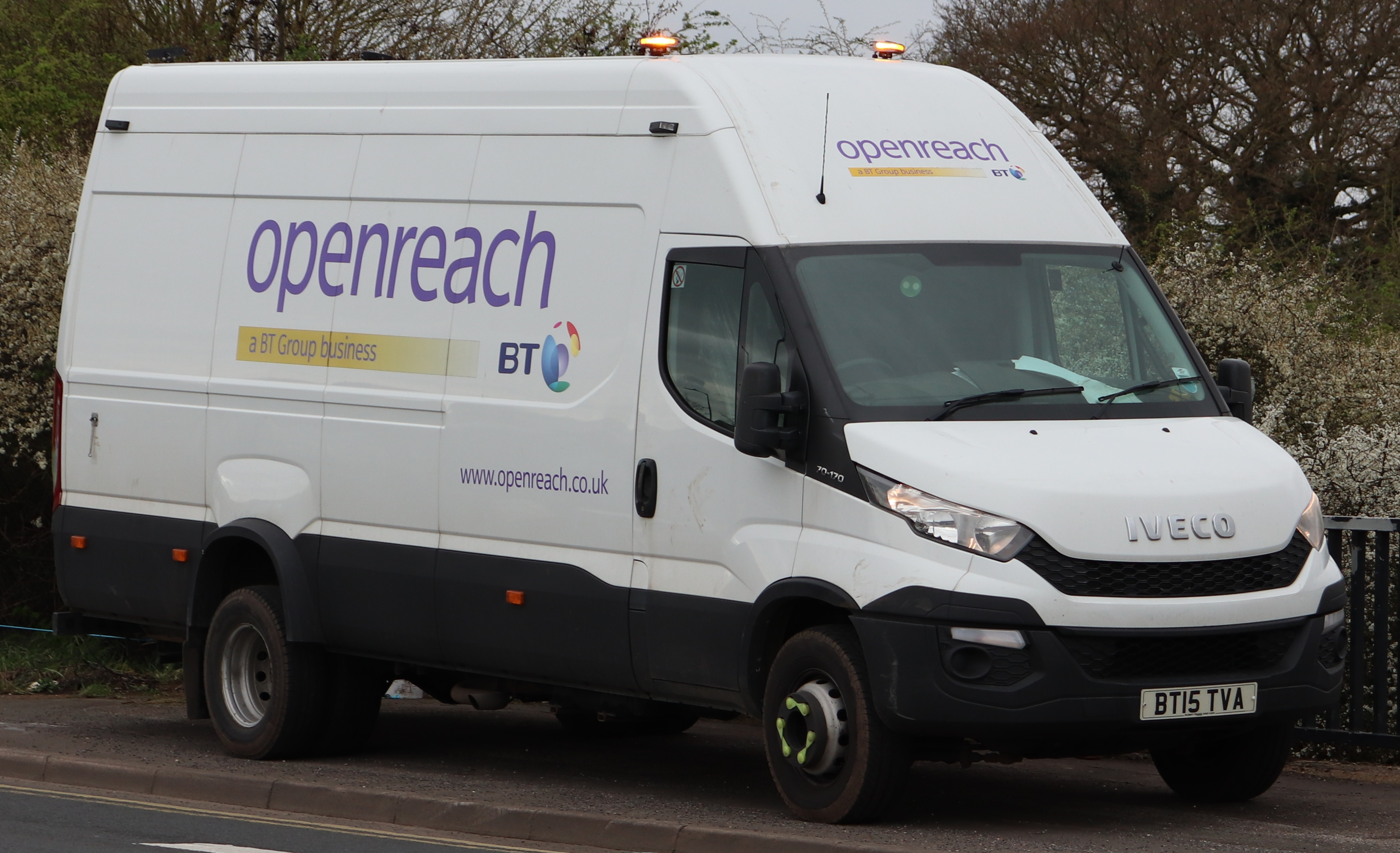 2015 Iveco Daily 70C17 3.0 BT Openreach Taken in Leamington Spa